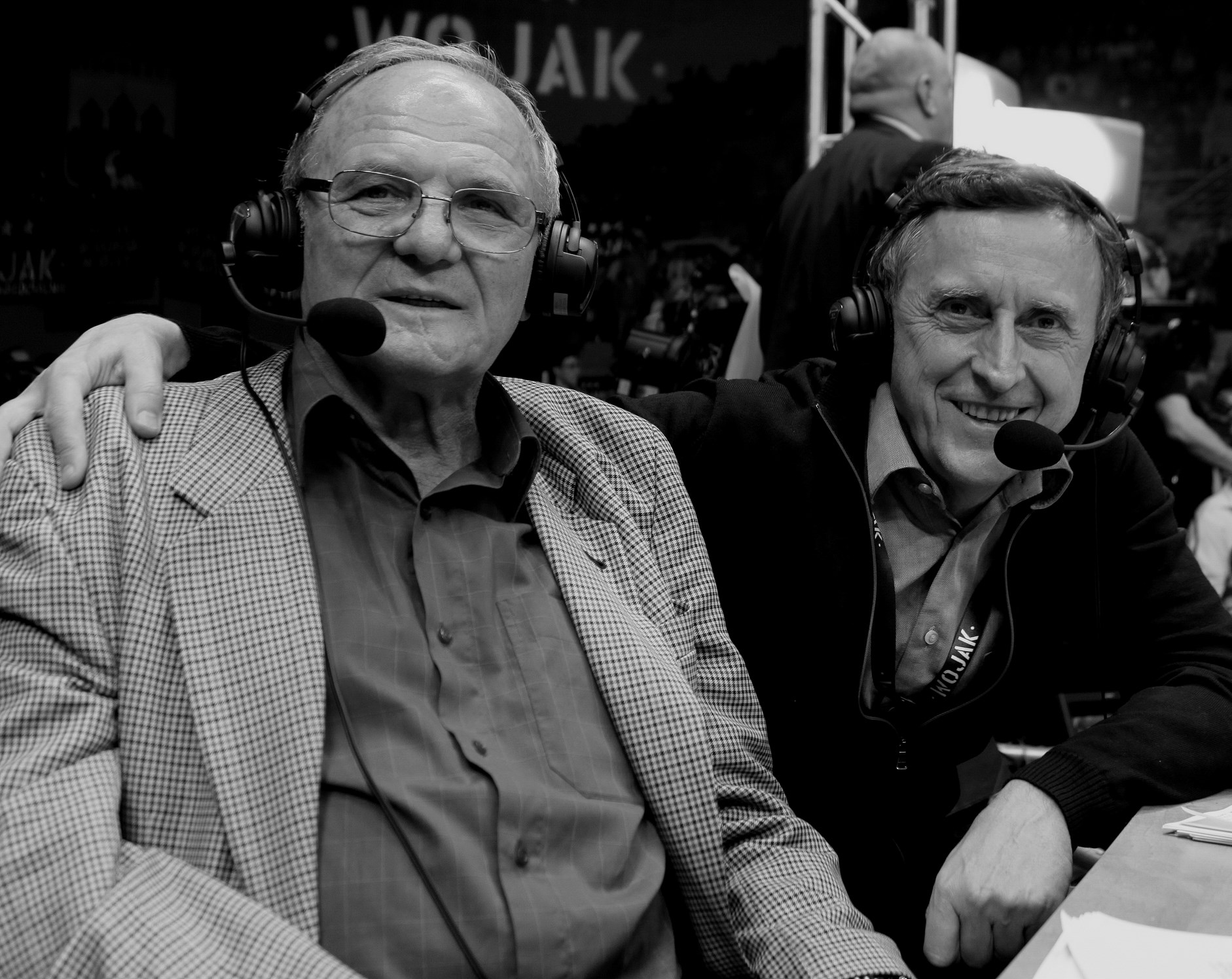 Jerzy Kulej & Andrzej Kostyra